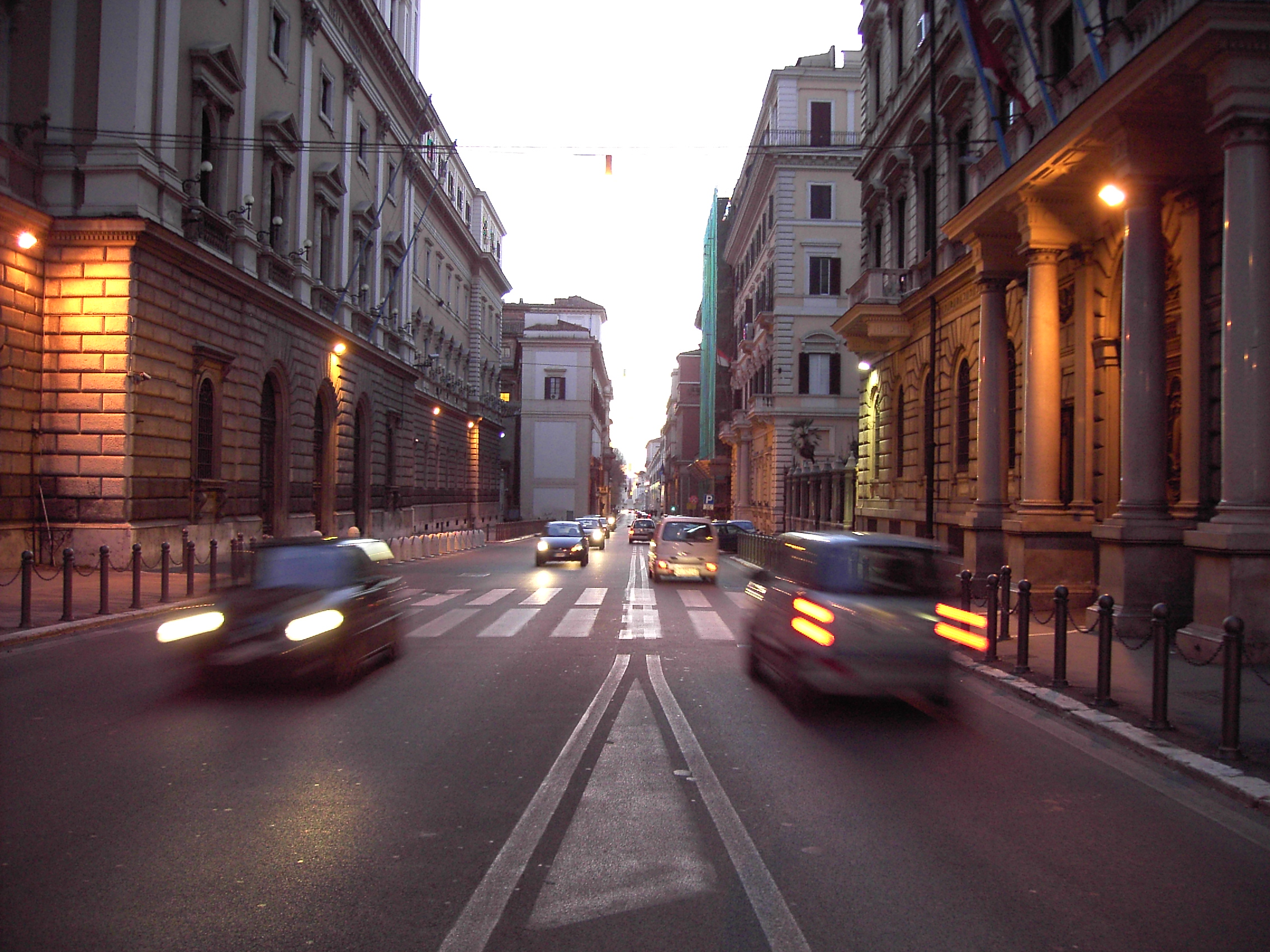 Via Venti Settembre in Rome